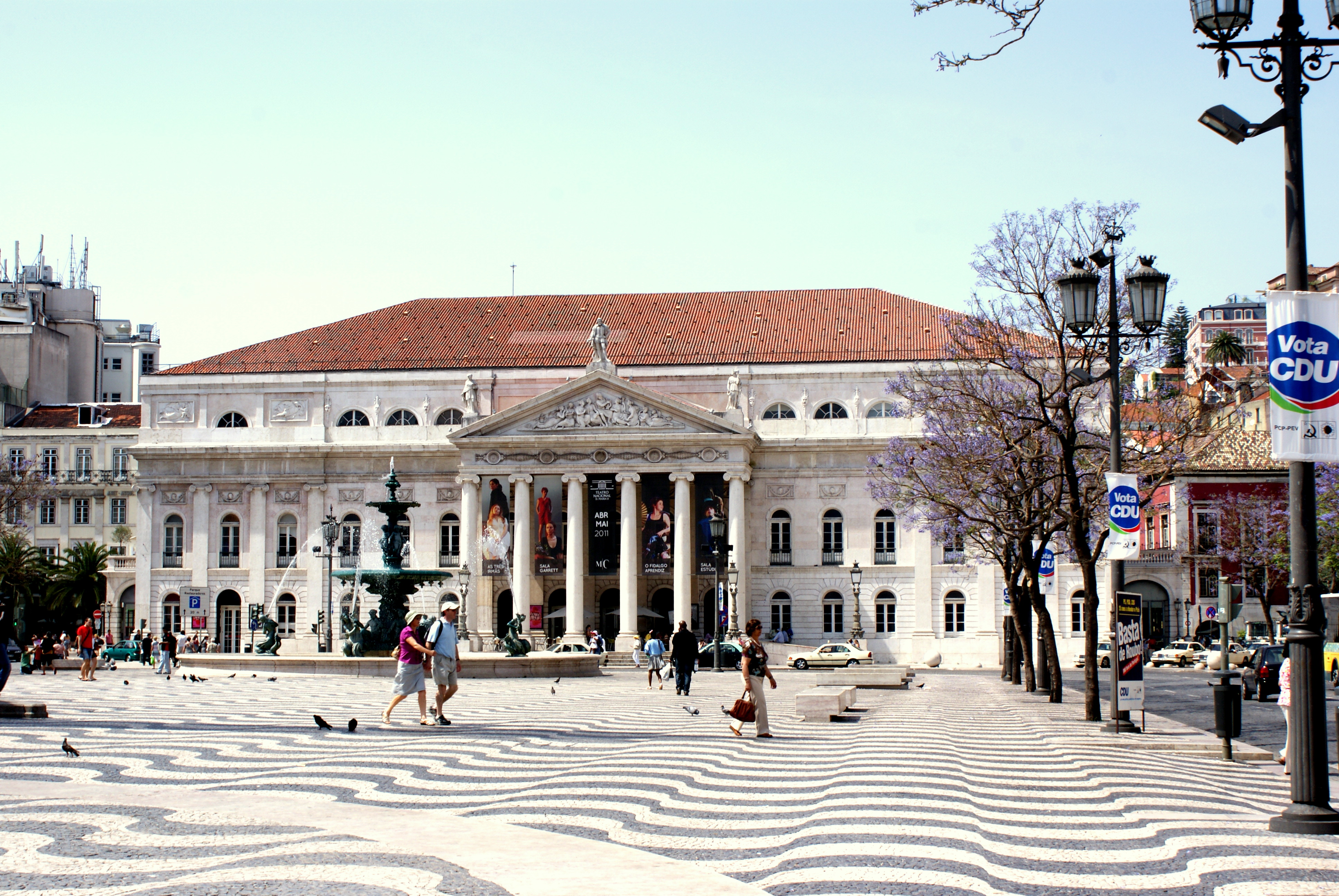 This file was uploaded for Wiki Loves Monuments in Portugal with the unique identifier 71832.